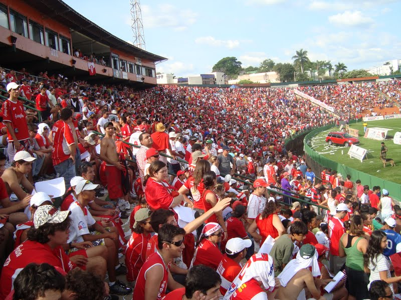 Uberabão packed stadium, cup final of Minas Gerais, Brazil, 2009